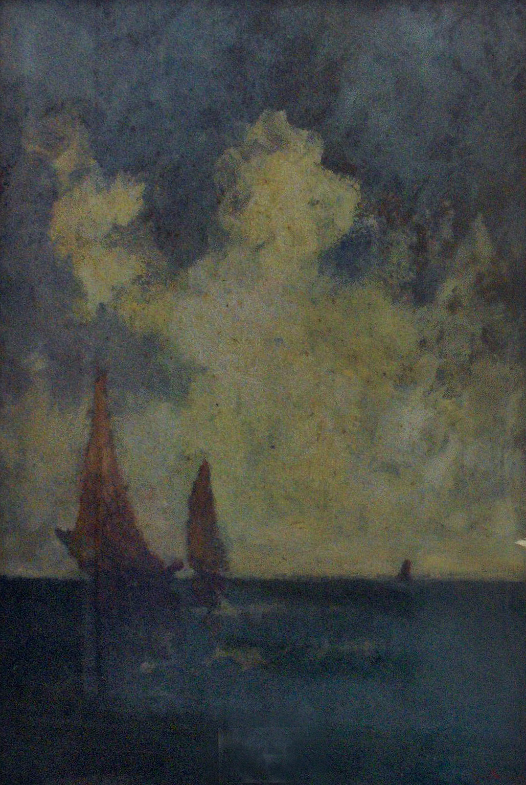 "Sailboats" oil painting by Léon Haakman (1859 - ?); signed : Ostende, 1925; private collection